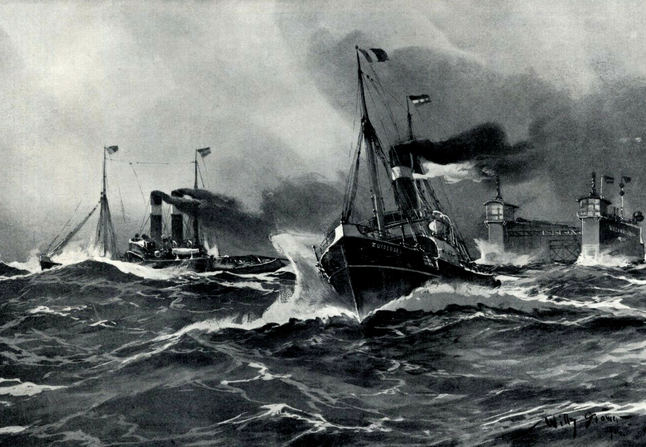 The Woermann floating dock intended for Cameroon on the transport across the Atlantic Ocean. After a sketch drawn by Willy Stöwer.